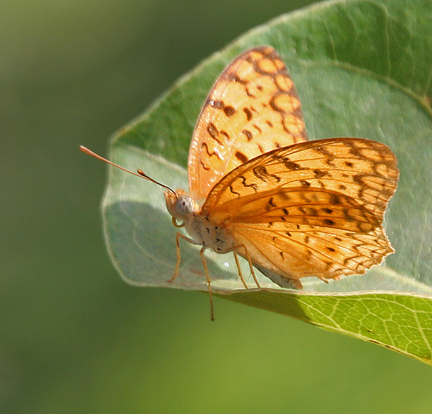 Common Leopard Phalanta phalantha at Ananthagiri Hills, in Rangareddy district of Andhra Pradesh, India.